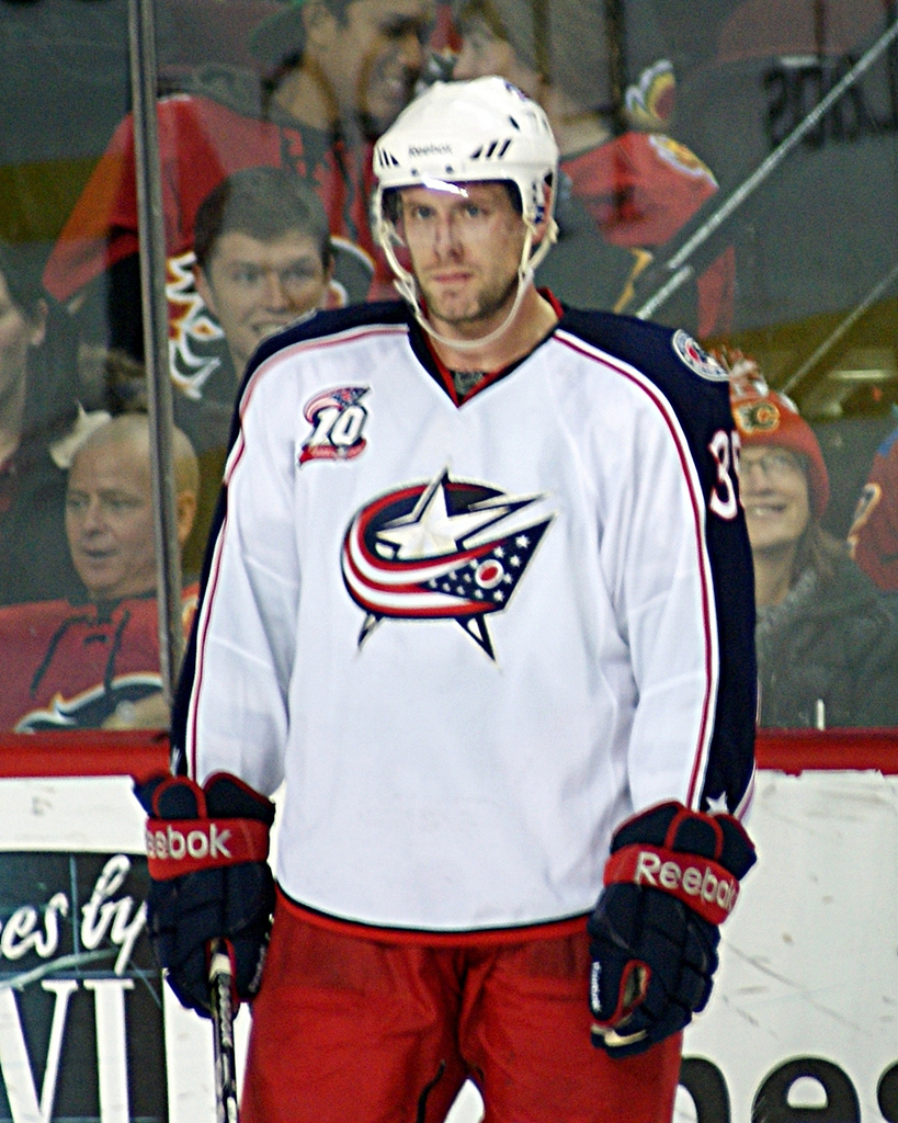 Jan Hejda, born June 18, 1978 in Prague, Czechoslovakia, is a Czech professional ice hockey defenceman currently with the Columbus Blue Jackets of the National Hockey League. This NHL game action photo was taken December 13, 2010 at the Scotiabank Saddledome in Calgary, Alberta.